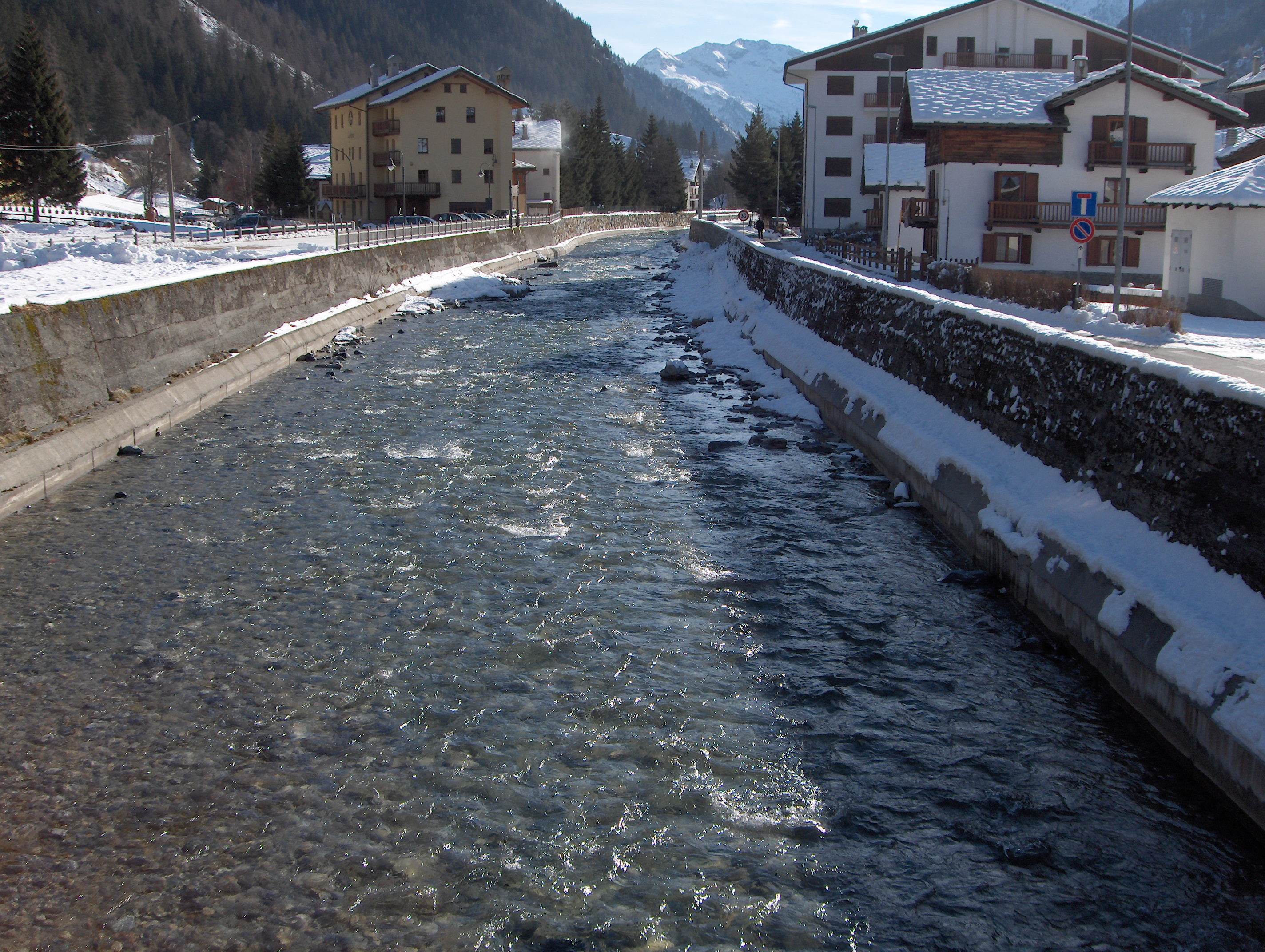 Torrente Lys (Gressoney-Saint-Jean, Valle d'Aosta, Italia)